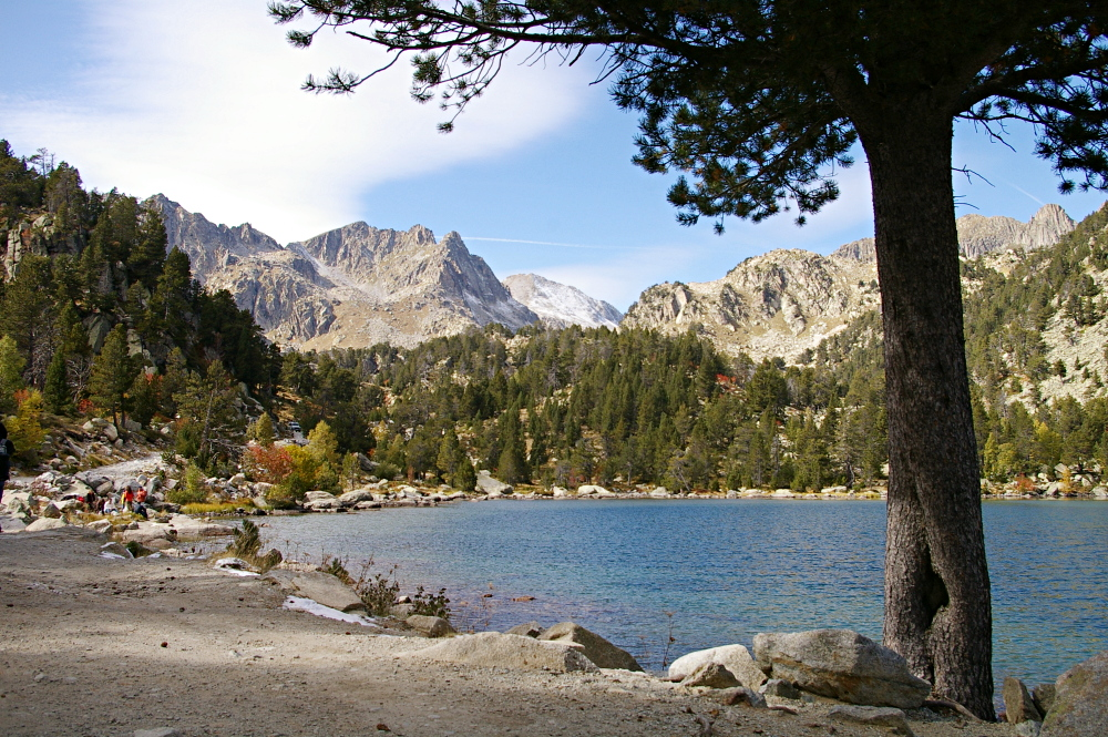 Pond de Ratera, Aigüestortes National Park, Catalonia, Spain